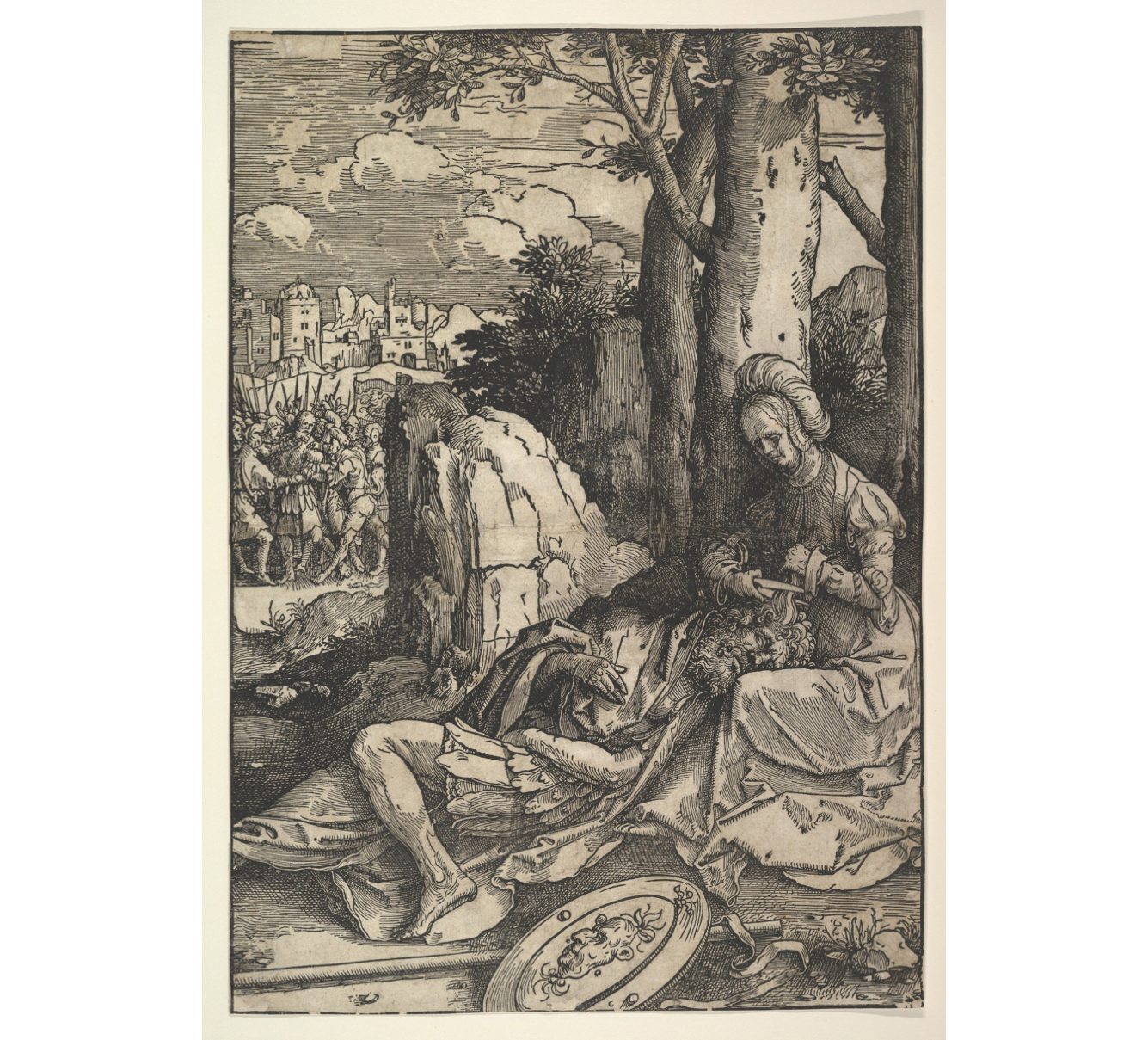 Samson and Delilah